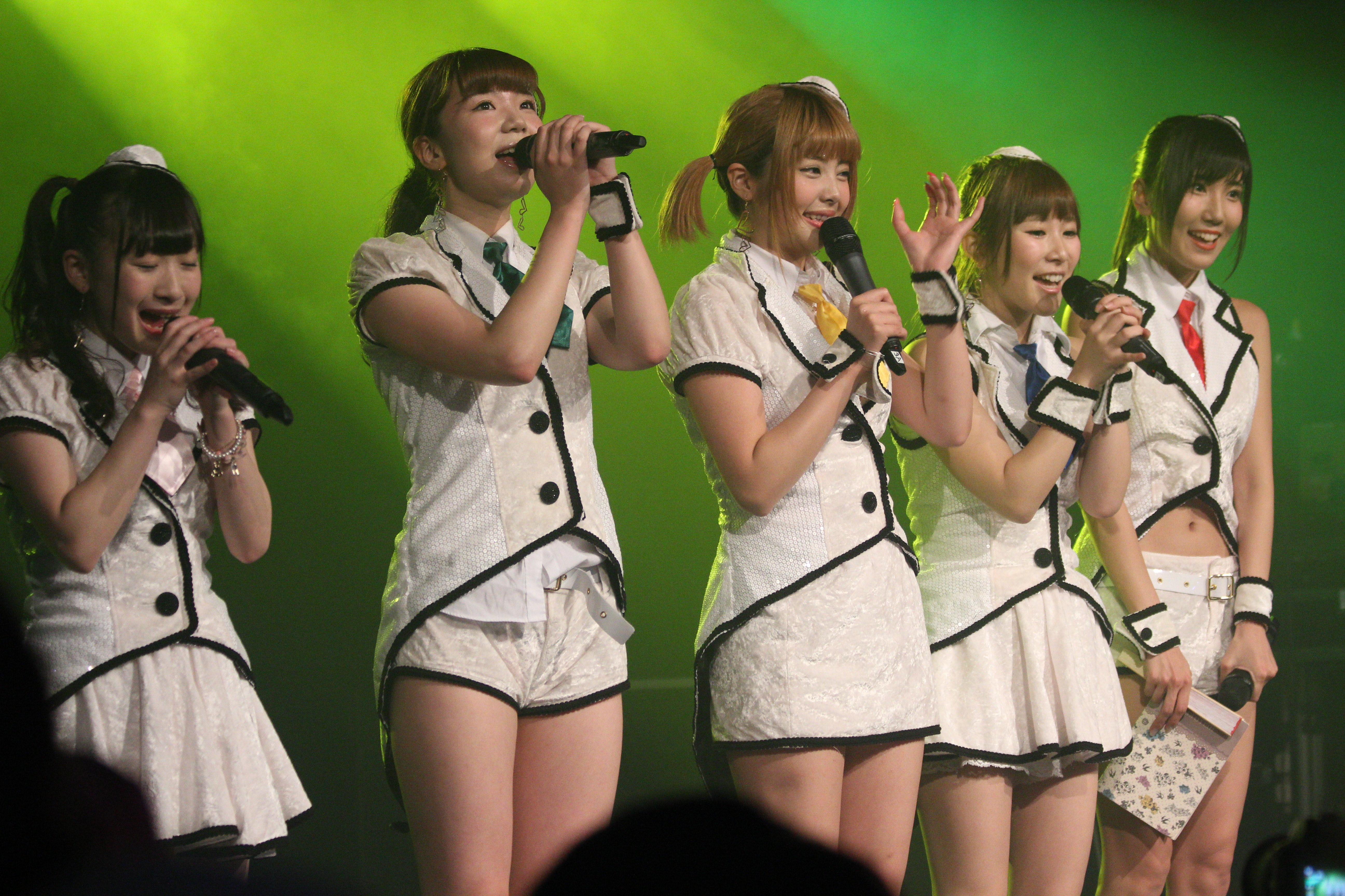 Japanese idol group Honey Spice on stage at HYPER JAPAN festival, summer 2015. More photos available from my Flickr album.